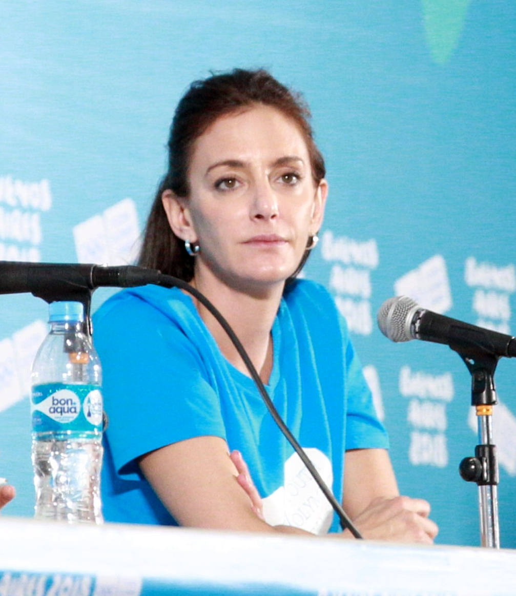 Field hockey player Luciana Aymar at a press talk as embassador for hockey at the 2018 Summer Youth Olympic Games in Buenos Aires.